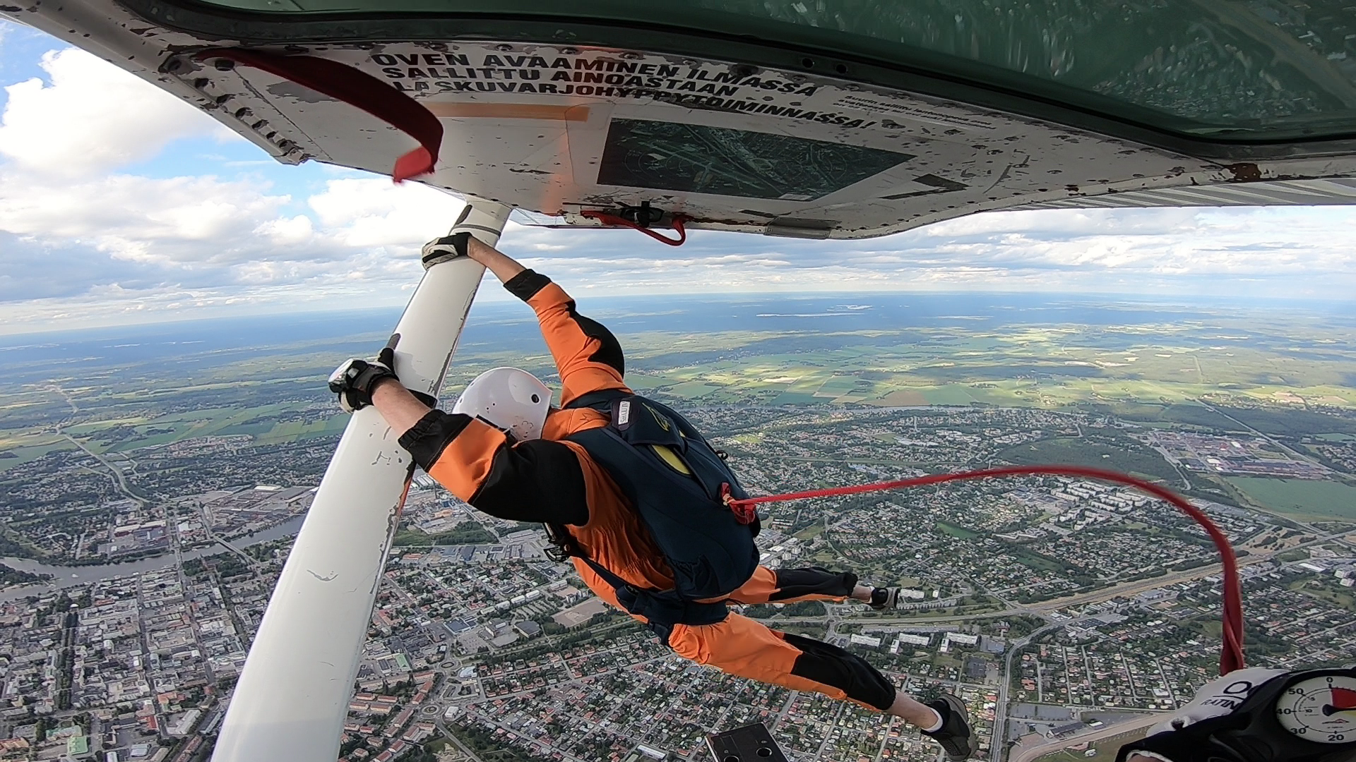 Parachuting in Pori